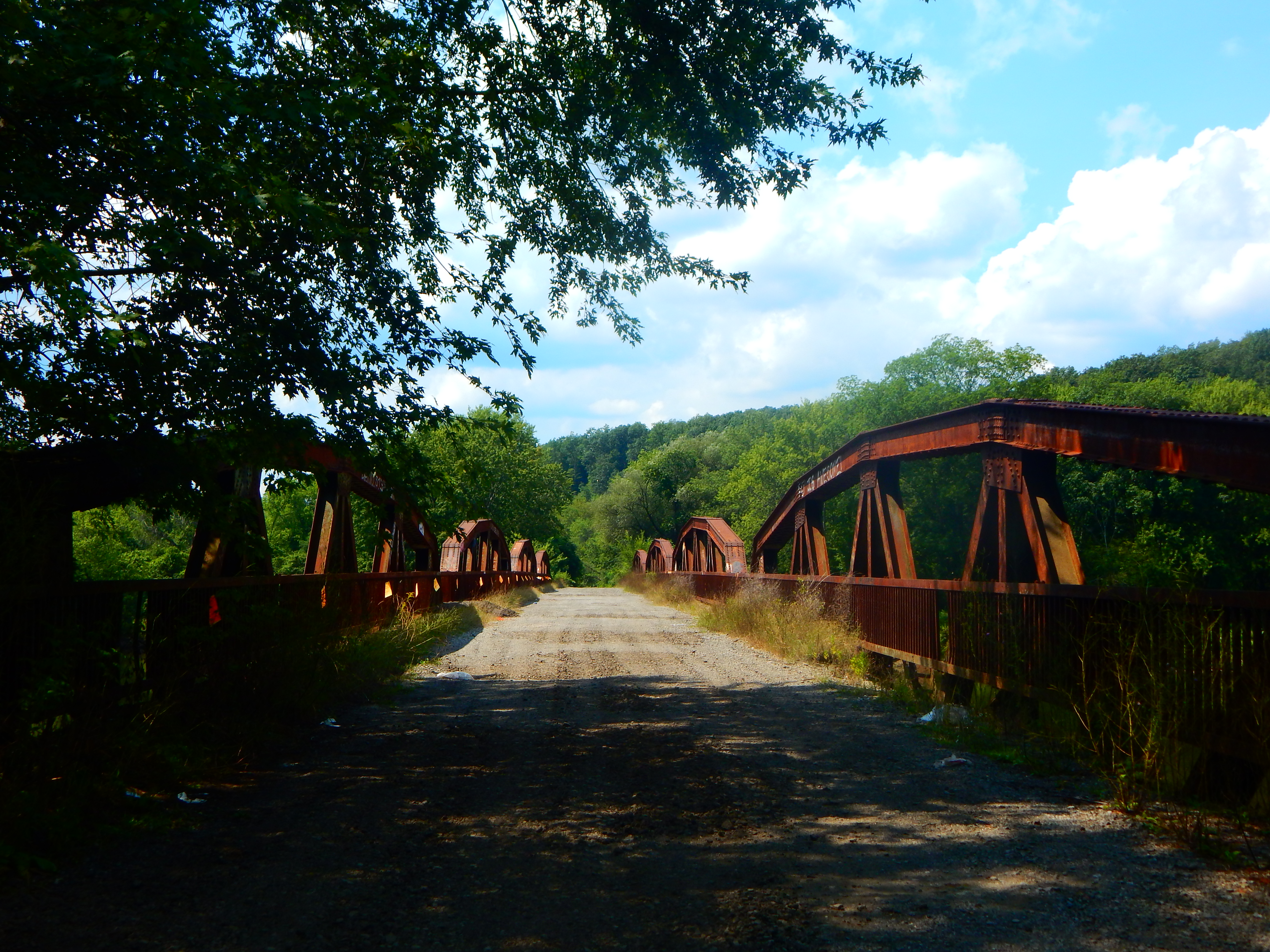 Red House Bridge over the Allegheny River in Red House, New York in August 2015.